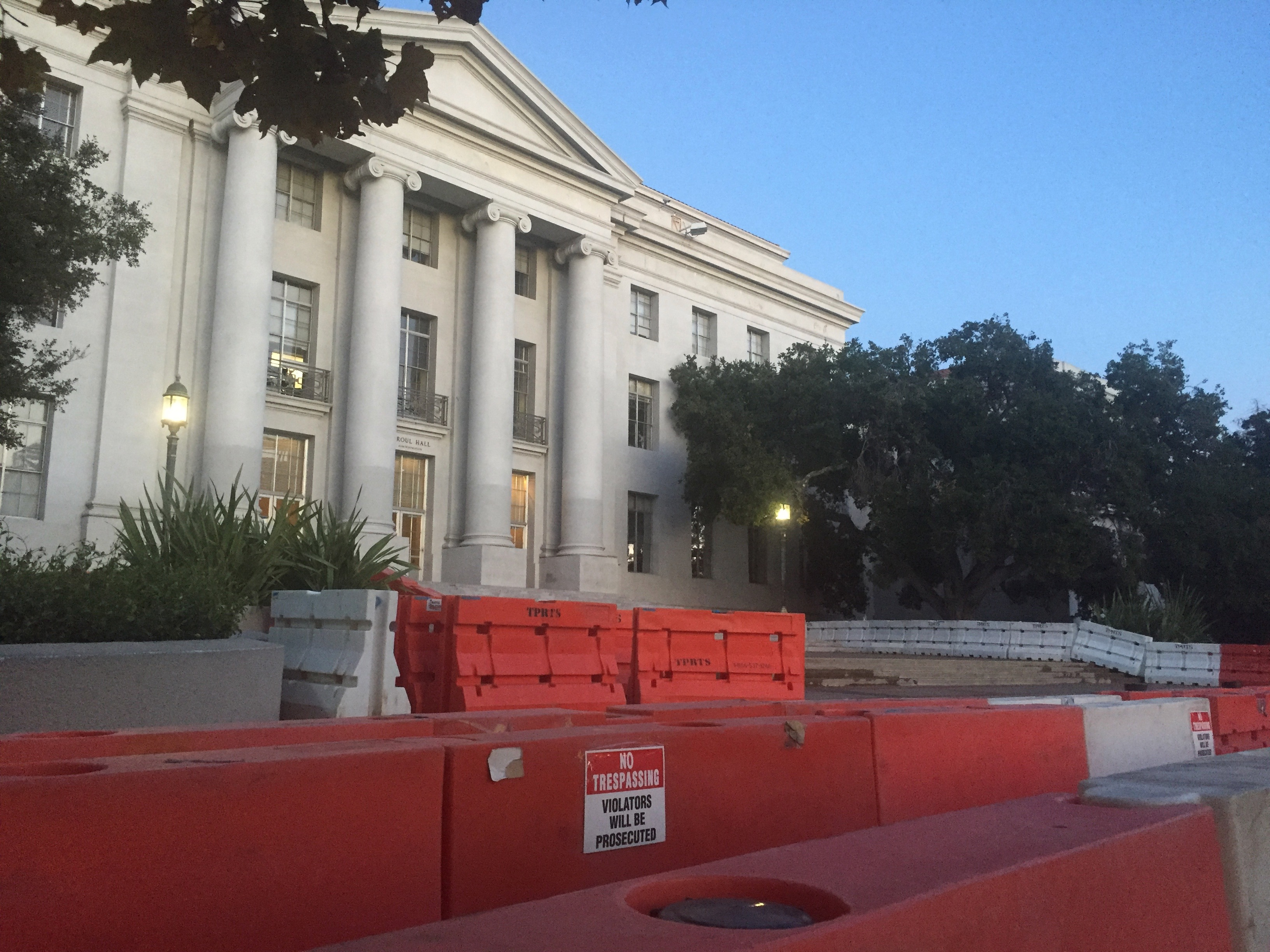 Soroul Hall in UC Berkeley was blocked by UCPD.